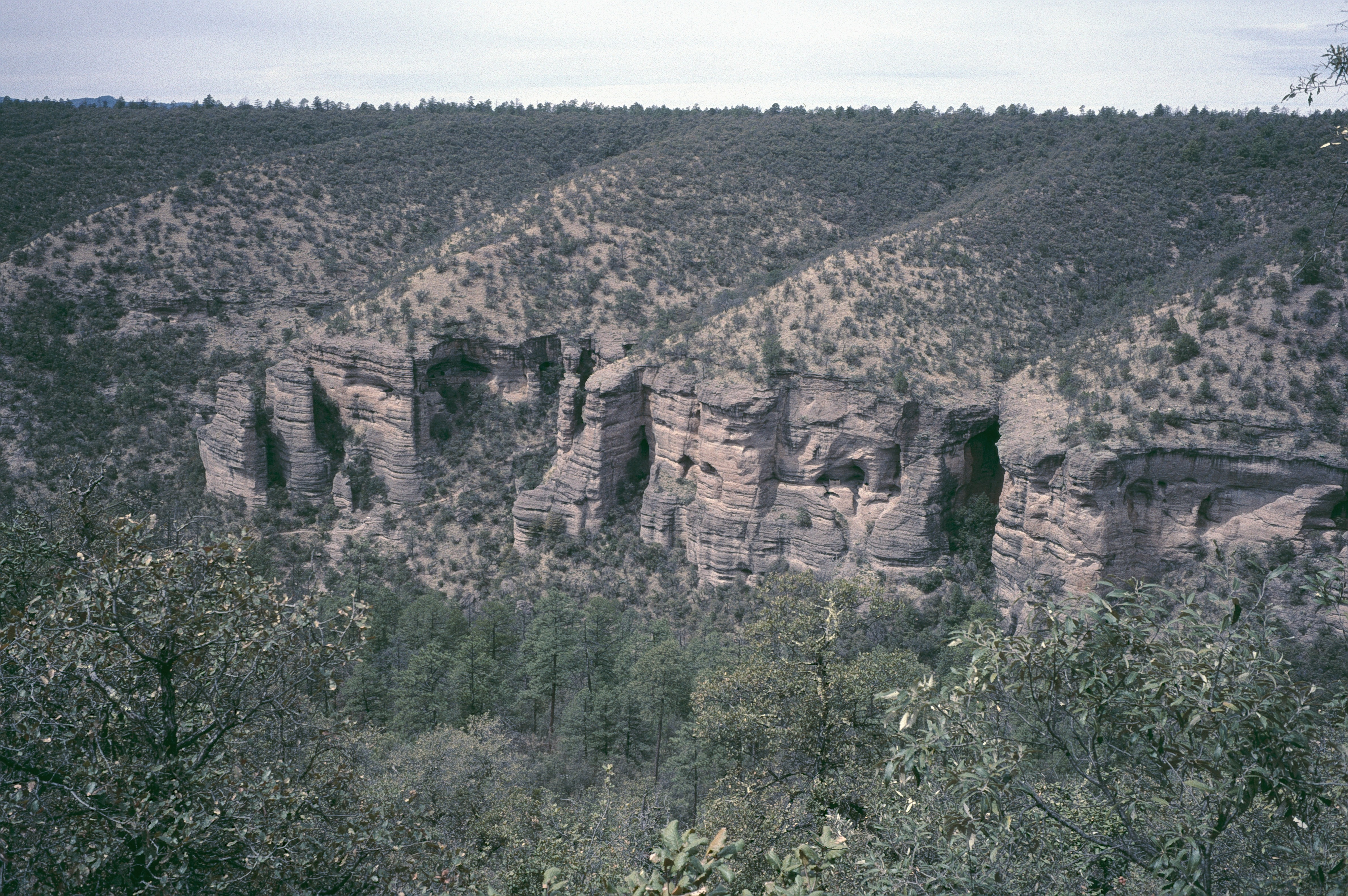 Cuarenta Casas, Chihuahua, Mexico: rock formation with cliff dwellings